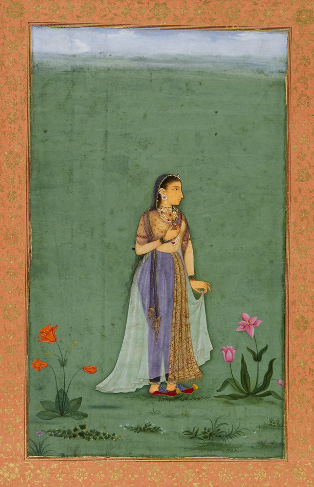 This portrait is thought to be of Princess Nadira Banu Begum daughter of Sultan Parviz. She is seen here wearing a patka, Odhani and magnificent jewels reflecting her status.